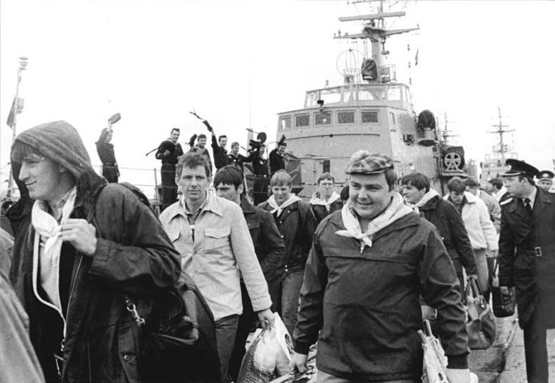 At the end of their active duty, GDR conscipts are demobilized at a Volksmarine naval-base. Crewmembers of a Kondor-II-class ship wave them goodbye. Original caption reads: NVA members transferred to reserve. The sound of the signal-horns from the ships of Volksmarine group "Rödel" bids an accoustic farewell to the crewmembers transferred to reserve